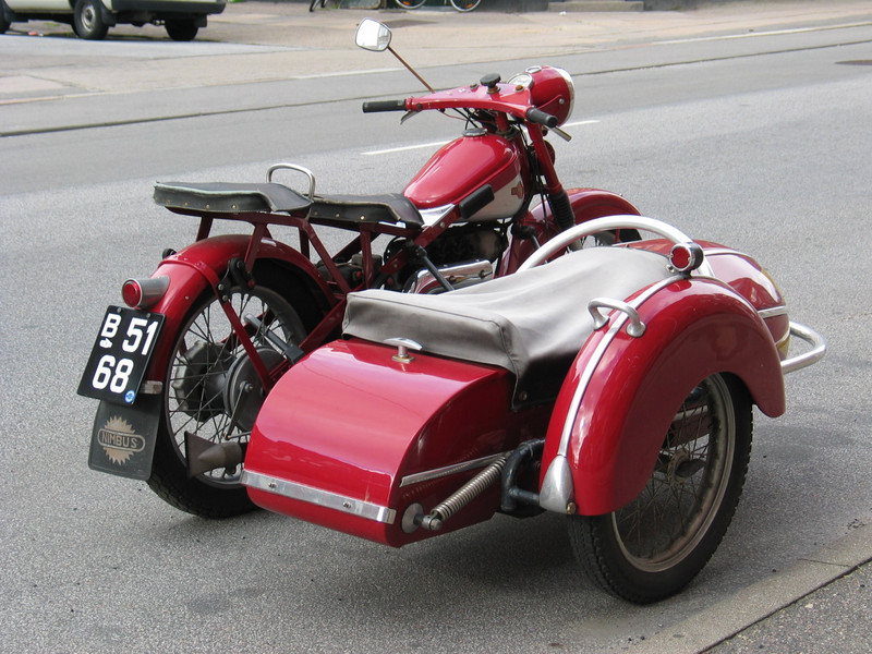 Nimbus motorcycle with sidecar with its original license plate.